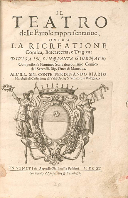 Title page of Flaminio Scala's Il teatro delle favole rappresentative, overo La ricreatione comica, boscareccia, e tragica: Divisa in cinquanta giornate, composte da Flaminio Scala detto Flavia Comico del Sereniss. Sig. Duca di Mantova. [The Theater of Tales for Performance, or for Comic, Rustic, and Tragic Recreation, Divided into Fifty Days, and Composed by Flaminio Scala, Named Flavio, Comedian of the Most Serene Lord Duke of Mantua]' (1611). Scanned copy stored in the United States Library of Congress.